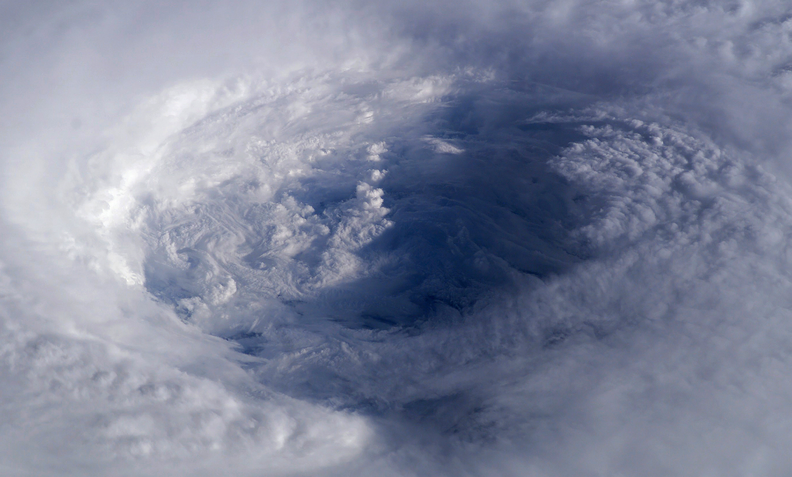 NASA astronaut Ed Lu took this image of the eye of Hurricane Isabel from the International Space Station at 11:18 UTC on September 13, 2003. At the time of the image, Isabel had weakened to a Category 4 hurricane on the Saffir-Simpson Hurricane Scale, from its peak as a Category 5. The storm was located about 450 miles northeast of Puerto Rico. The camera used was a Kodak DCS760C electronic still camera with a focal length of 180 mm.